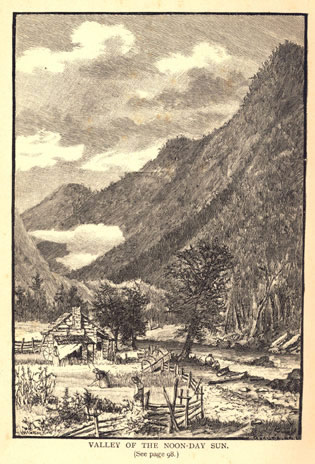 illustration entitled 'Valley of the Noon-Day Sun' referencing the passage: You are looking across a long pent-in vale. On one side the Anderson Roughs, lofty and impending, with steep ridges, one behind the other, descending to the river, reach away to where the blue sky dips in between them and the last visible perpendicular wall that frowns along the valley’s opposite border. The wilderness of the scene is heightened instead of softened by the vision of Campbell’s lowly cabin in the center of the narrow corn-fields. You see the smoke above the blackened roof; several uncombed children tumbling in the sunshine; the rail fence close by its frail porch; and, beyond it, the limpid Nantihala, smooth and turbulent alternately, and filling the ears with its loud monotone.